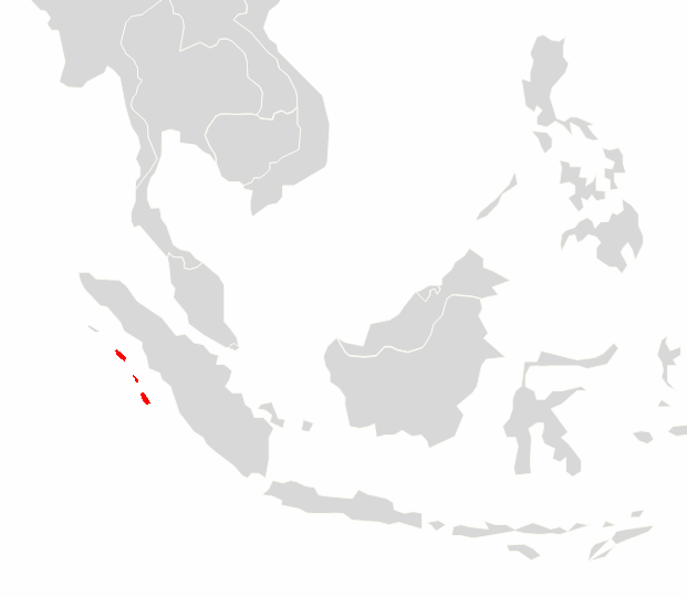 Pig-tailed Langur (Simias concolor), range map, depending on the range map at IUCN red list